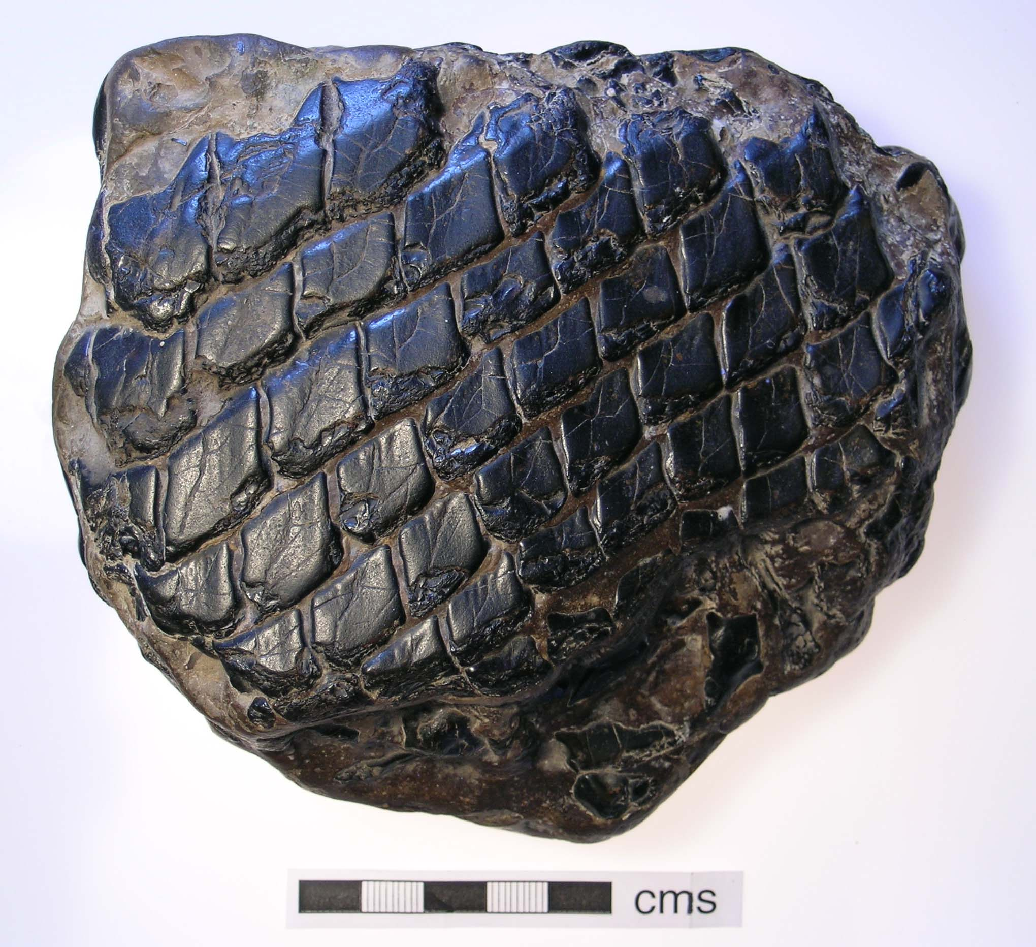 The fossilled remains of a Lepidotes (fish). Dating to the Lower Cretaceous period (circa. 130 million years ago). The fish’s scales are clearly visible on the fossil. The fossilled scales from the other side of the fish also remain lock inside the fossil (the can still be seen in section). This shows that this fish was flattened, during the fossilisation process. Some of the fish’s ribs are also evident between the two layers of scales.